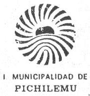 Black and white reproduction of the official logo and seal of the Illustrious Municipality of Pichilemu (Ilustre Municipalidad de Pichilemu).